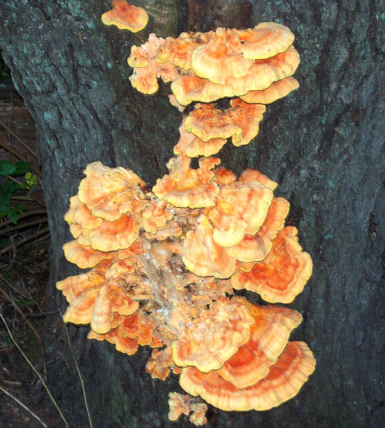 Sulphur Shelf Fungus Laetiporous sulphureous Kingdom: Fungi (mushrooms, lichen, etc.) Phylum: Basidiomycota (club fungi: mushrooms, shelf fungi, puff balls) Common Names: Sulphur shelf, chicken of the woods, mushroom chicken, rooster comb